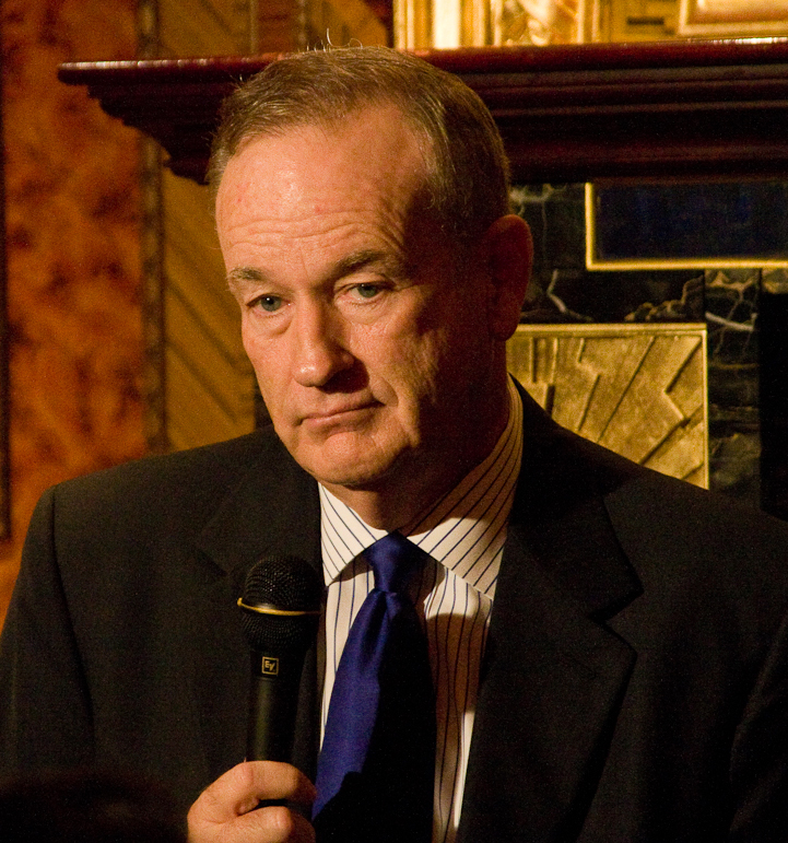 Bill O'Reilly at a Hudson Union Society event in September 2010.